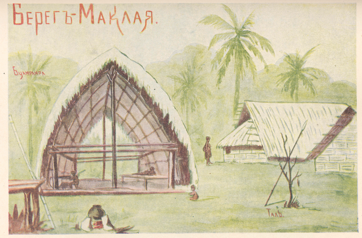 Drawing by Nicholas Miklouho-Maclay, titled "Maclay's Coast"